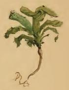 Stainton’s Natural History of the Tineina (1855–1873): Agonopterix nanatella plant of Carlina vulgaris with mined leaves